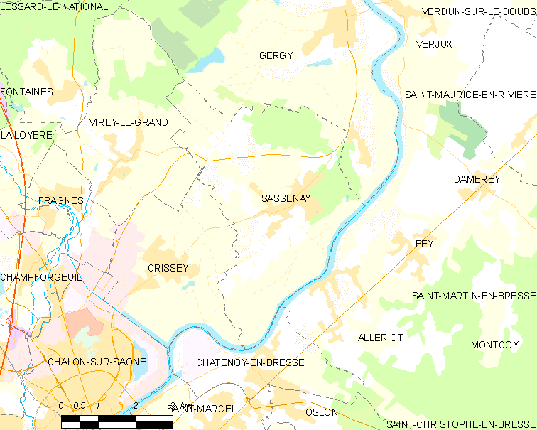 Map of French municipality